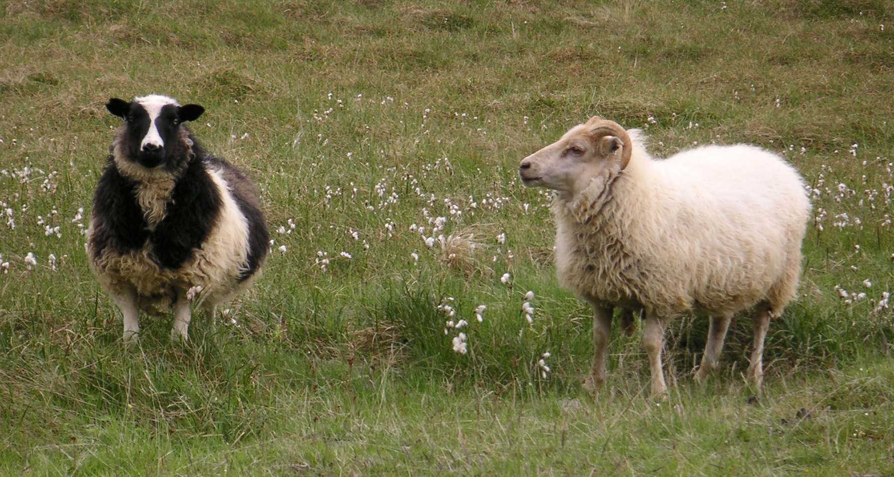 Icelandic sheep, two colors, taken in Iceland, June 2005 Uploaded by the author, Kyle MacLea.